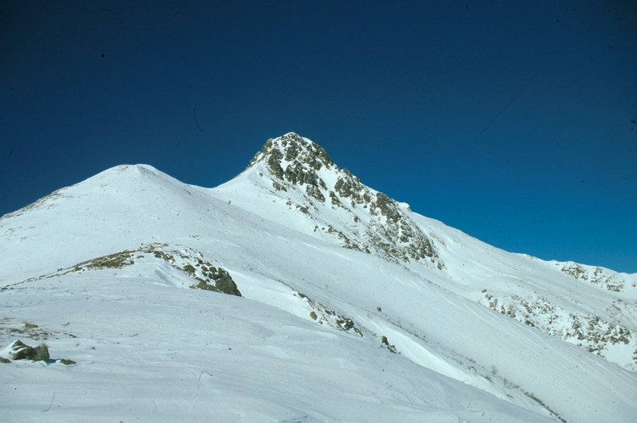 The Ormea's Pizzo in winter version